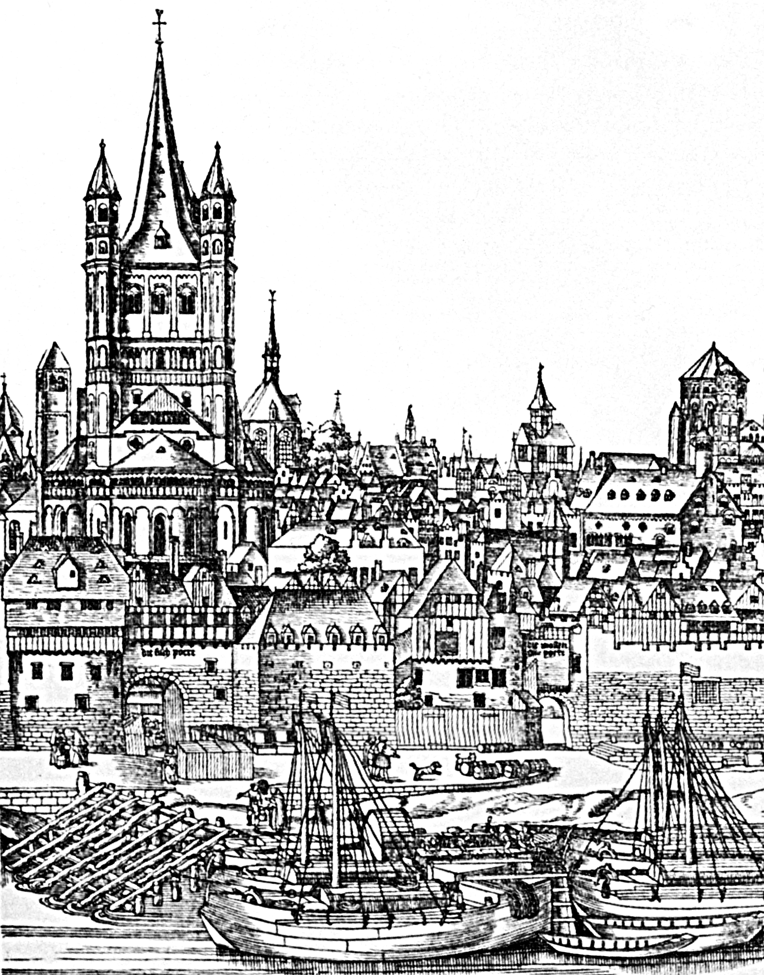 Cutout with the church Groß St. Martin (Köln) of woodcut of Cologne, Germany